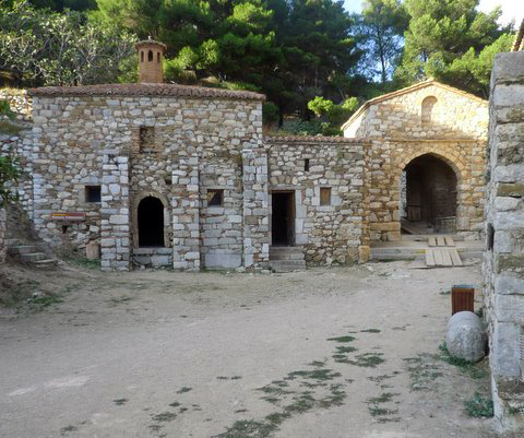 Fotanama, Monastery of Hosios Loukas in Boetia, Greece